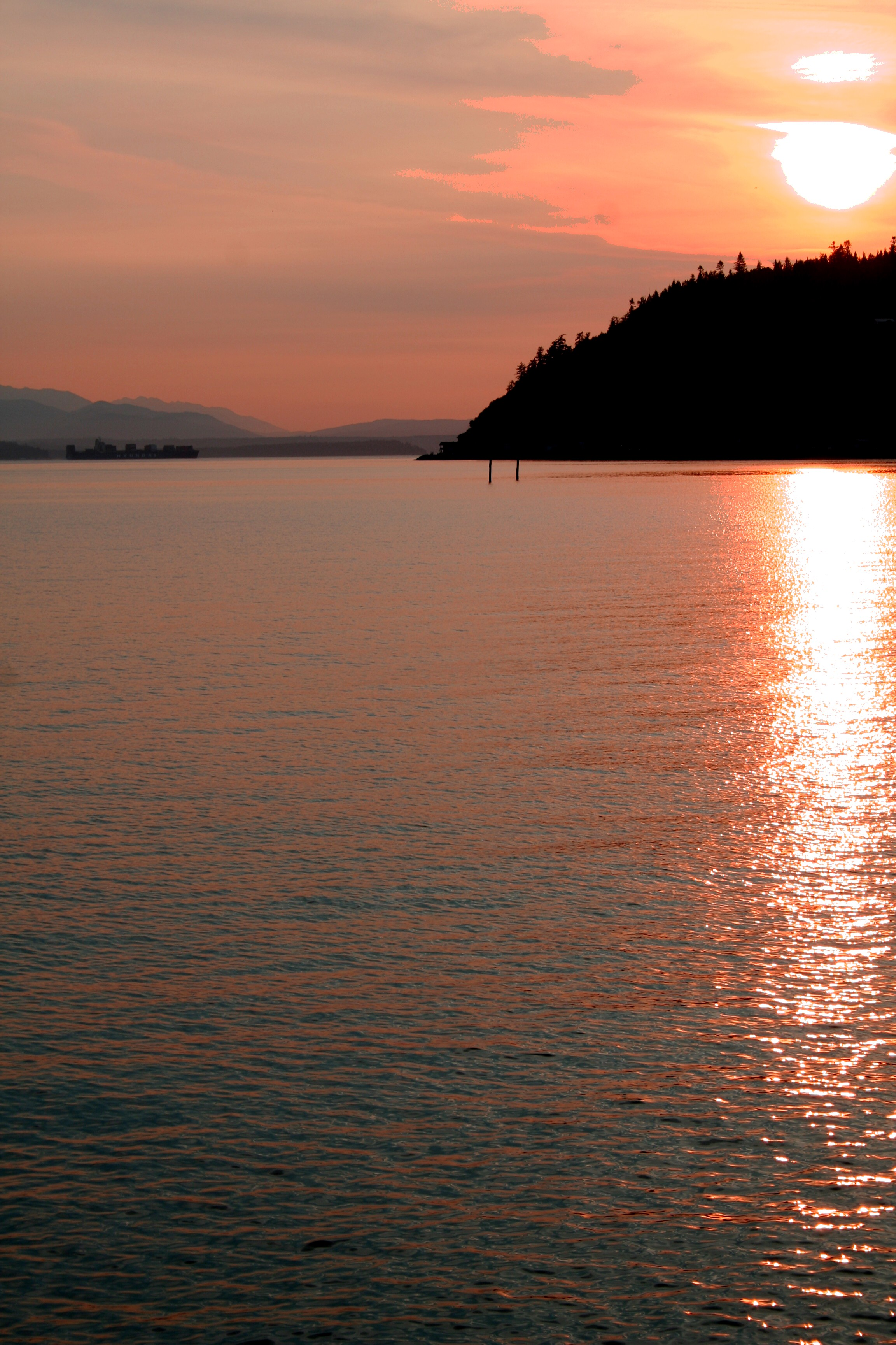 All we get by way of description from the original uploader is "sunset from a Clinton beach". That is Clinton, Washington state, USA.